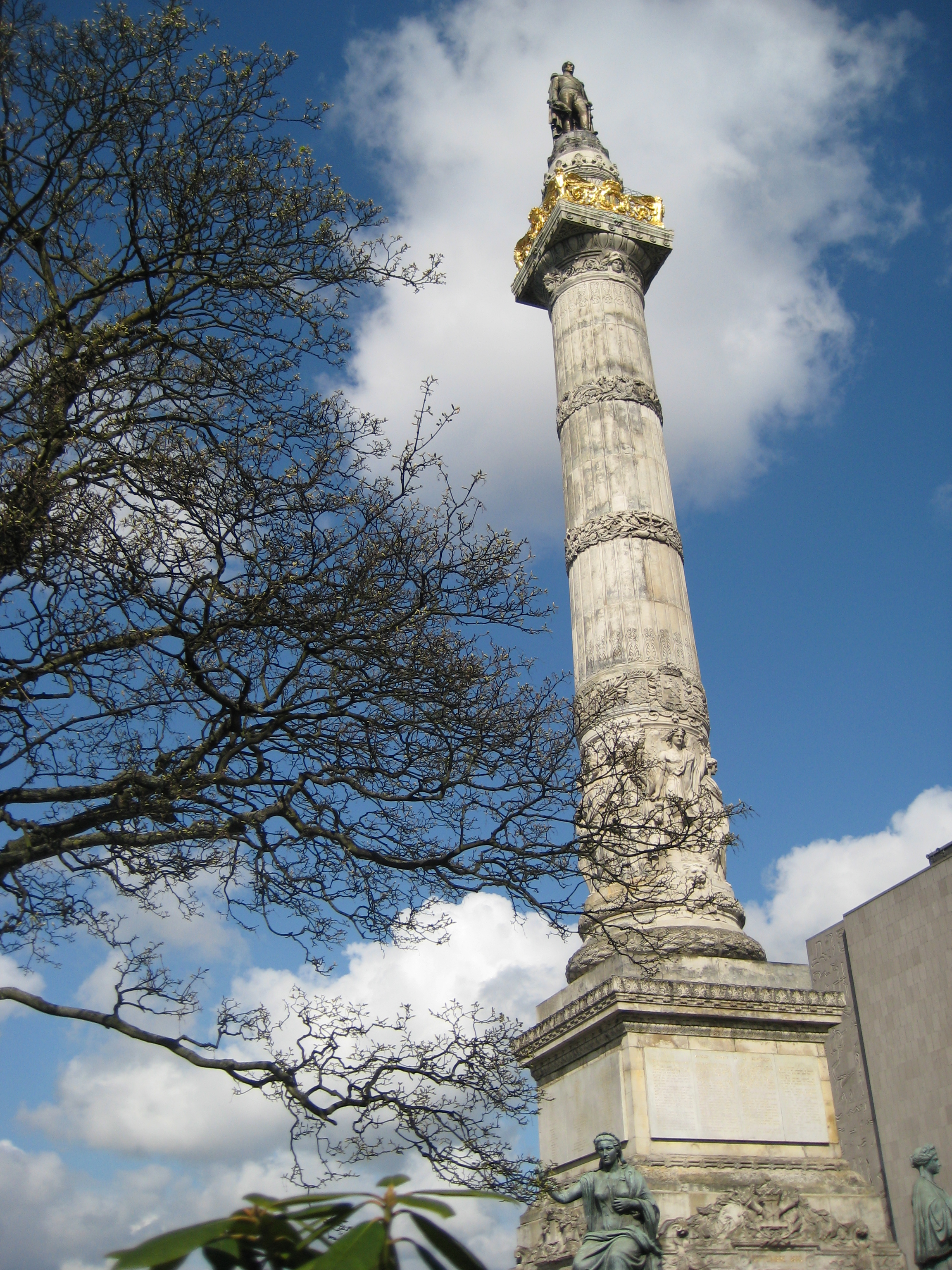 Congress Column in Brussels